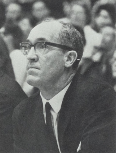 Pepperdine University Basketball coach Duck Dowell in 1963